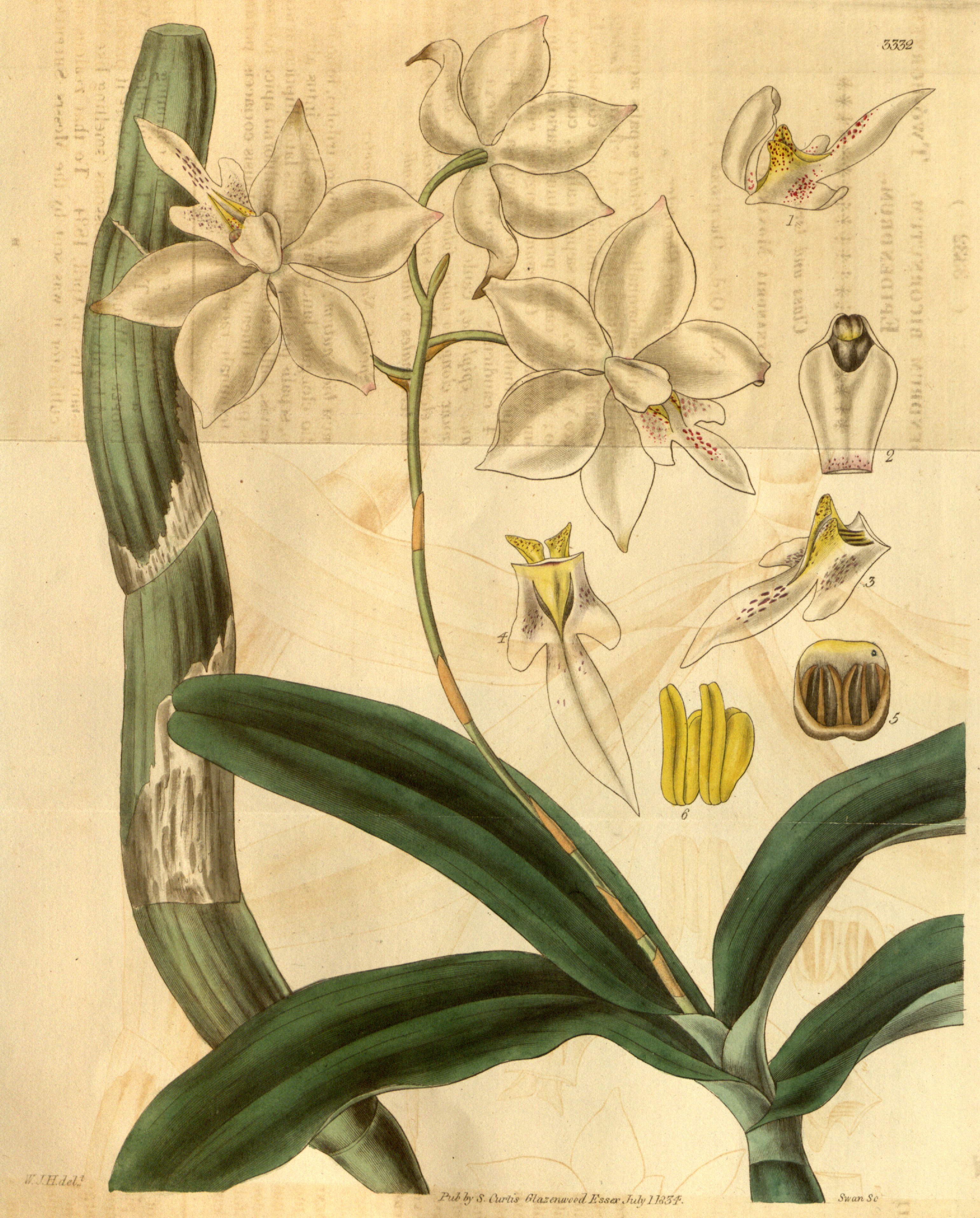 Illustration of Caularthron bicornutum